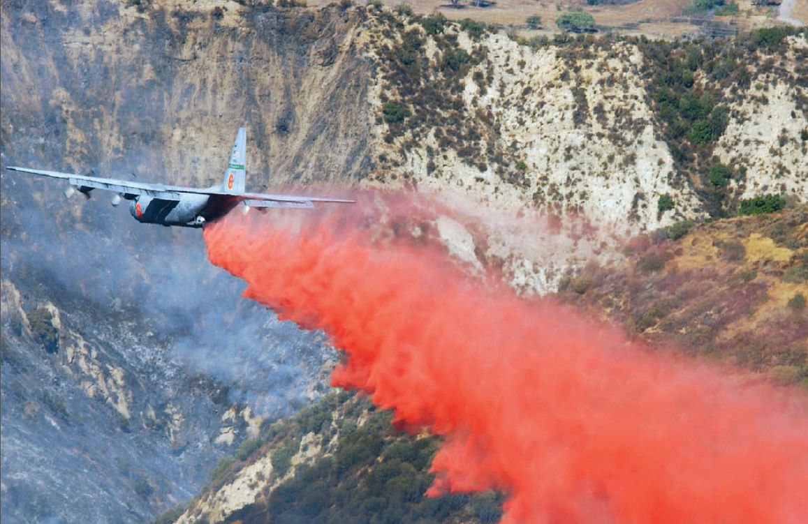 C-130E Hercules cargo aircraft from the 146th Airlift Wing, California, rigged with a Modular Airborne Fire Fighting System (MAFFS) makes a Phoschek fire retardant drop on the Simi Fire in Southern California, October 28, 2003.